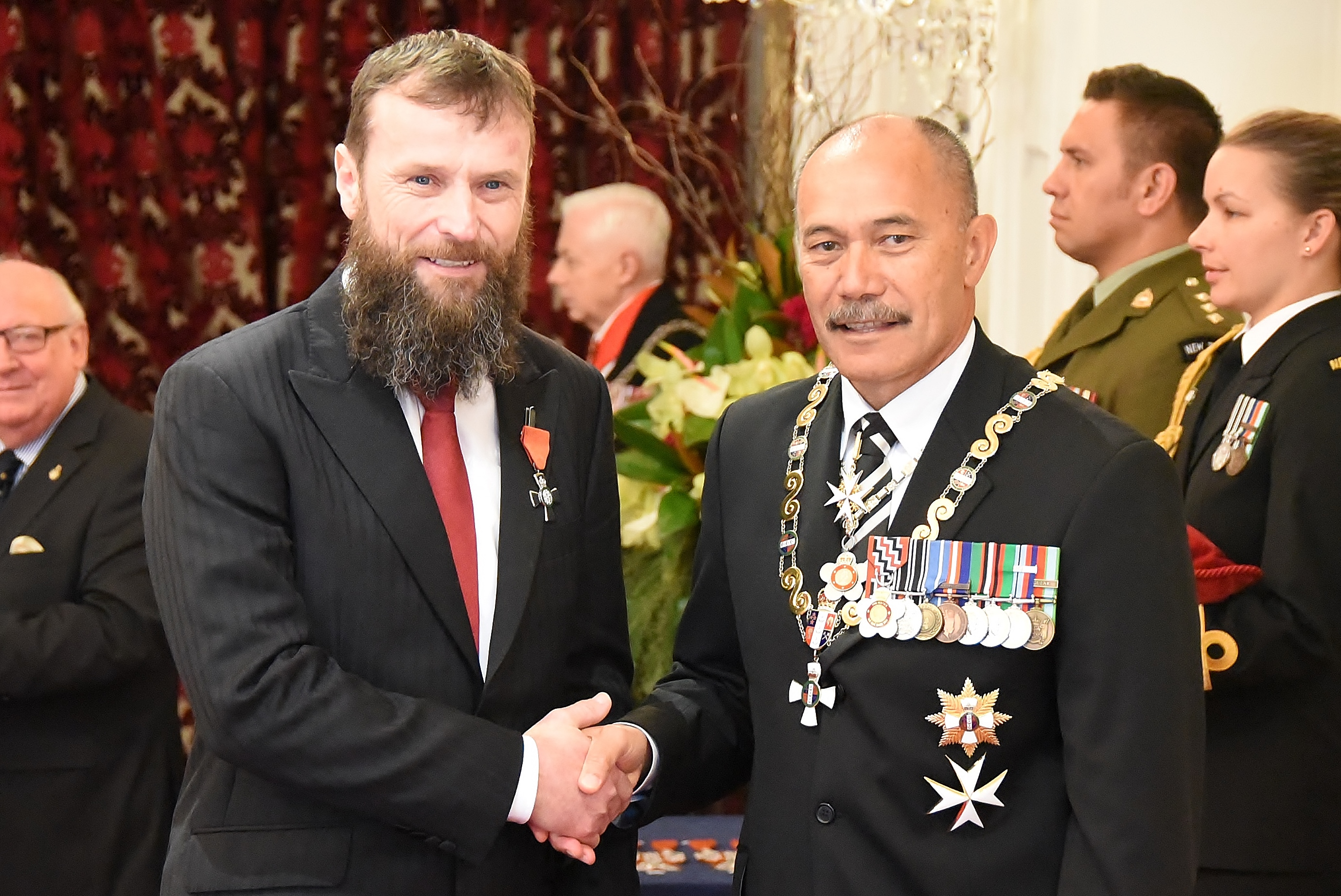 Bruce Anstey (left), after his investiture as MNZN, for services to motorsport, by the governor-general, Sir Jerry Mateparae, on 14 April 2016